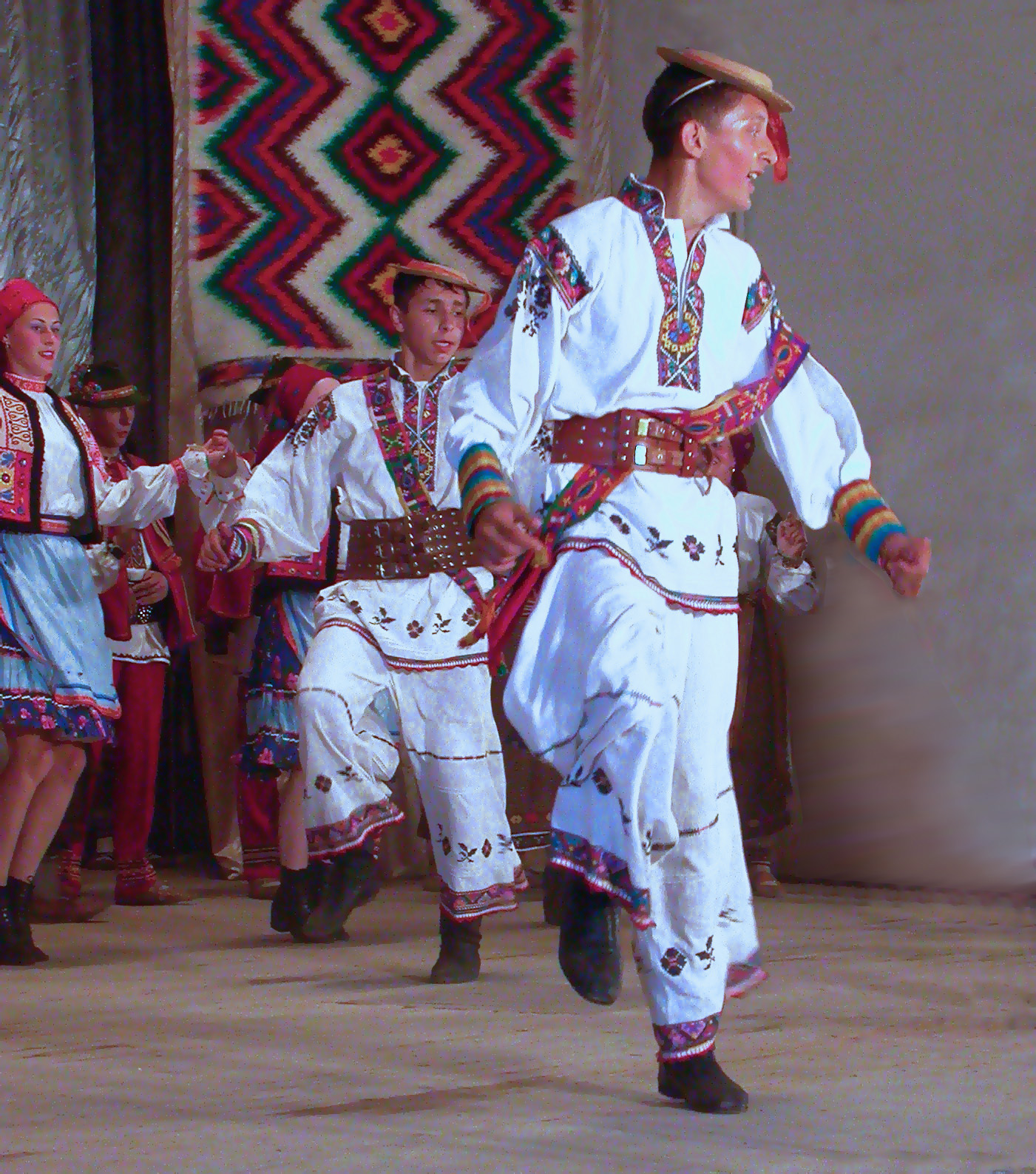 Anszambl Lisorub, Vel. Bycskuv